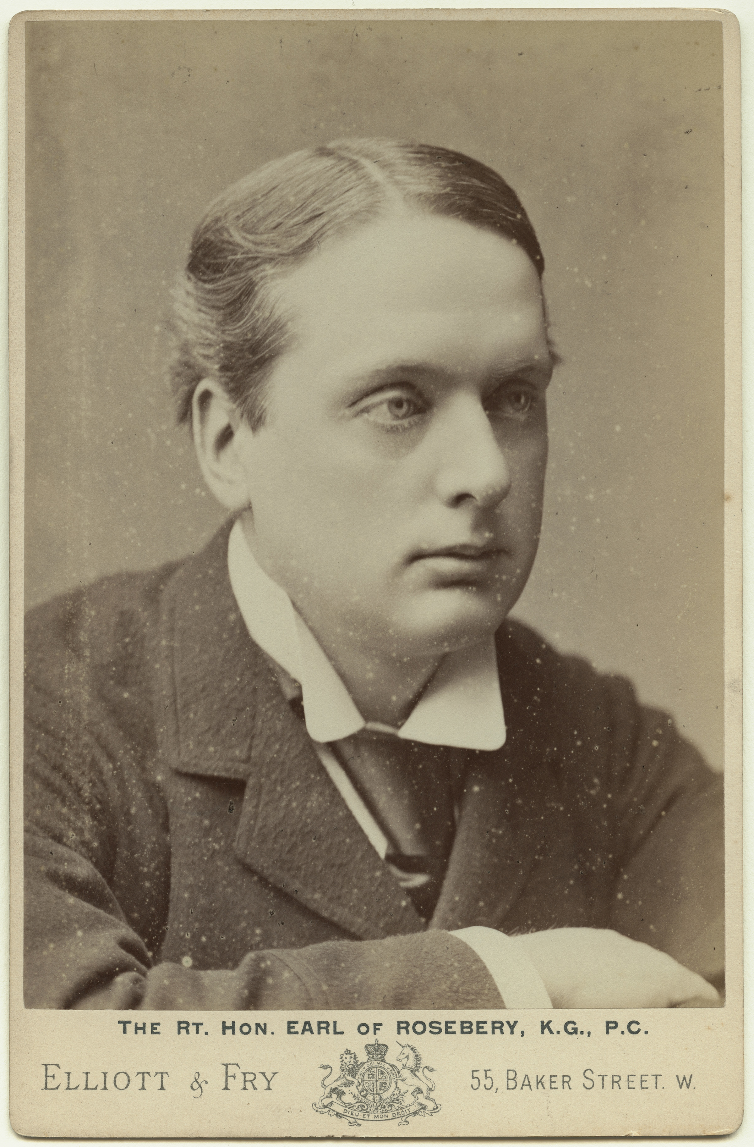 Portrait of Archibald Primrose (1847–1929)